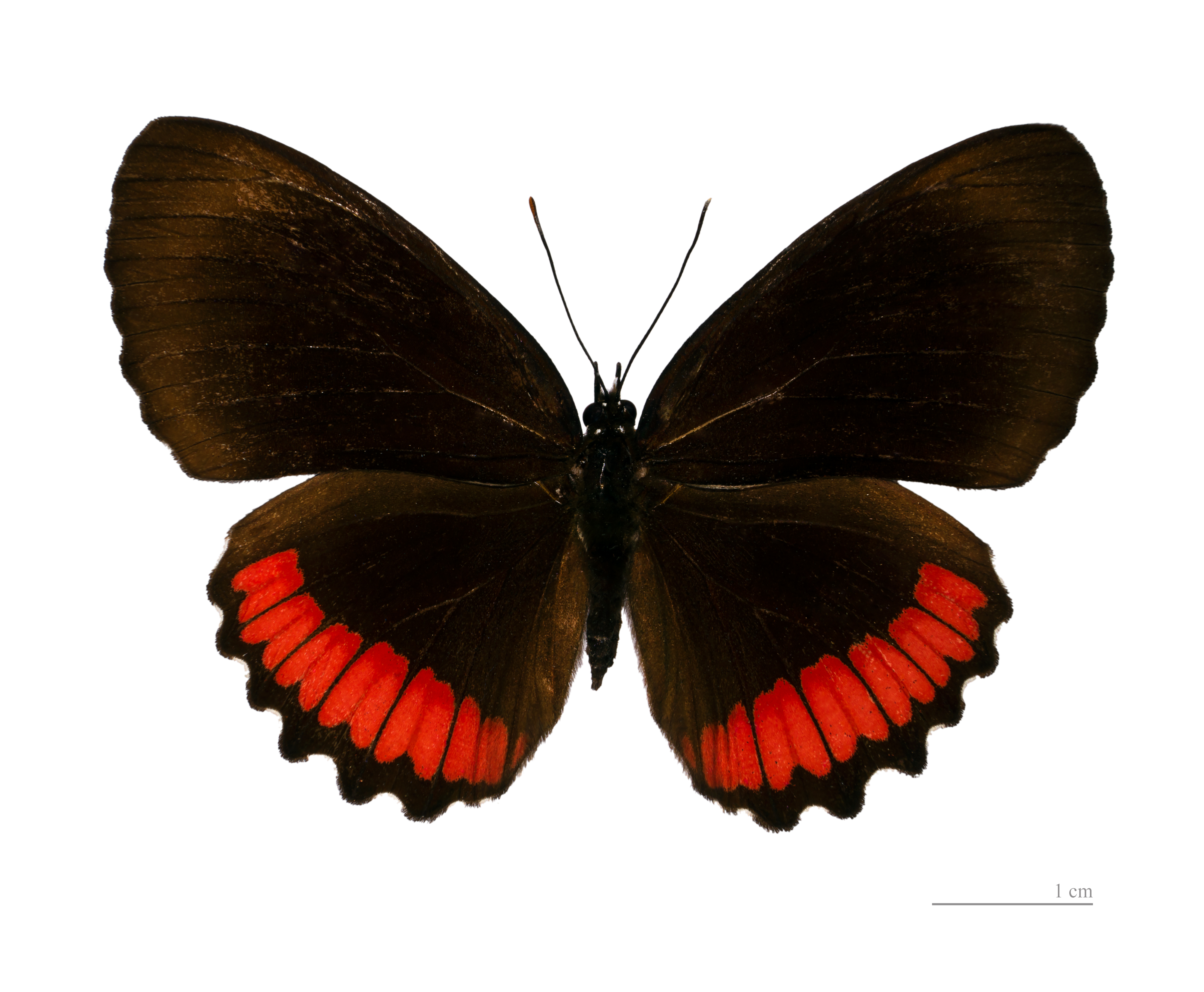 ♂ - Dorsal side Locality : Kaw road PK31, French Guiana.